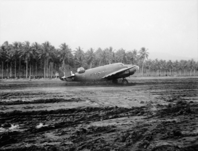 One of No. 6 Squadron RAAF's Lockheed Hudson light bombers taxiing on Gurney Airstrip at Milne Bay